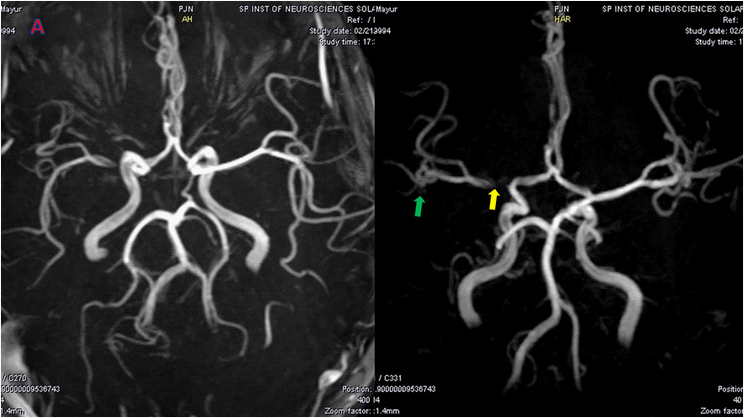 edit TOF MRI angiography of right middle cerebral artery stenosis.png. For context, see Wikipedia:Imaging in stroke.